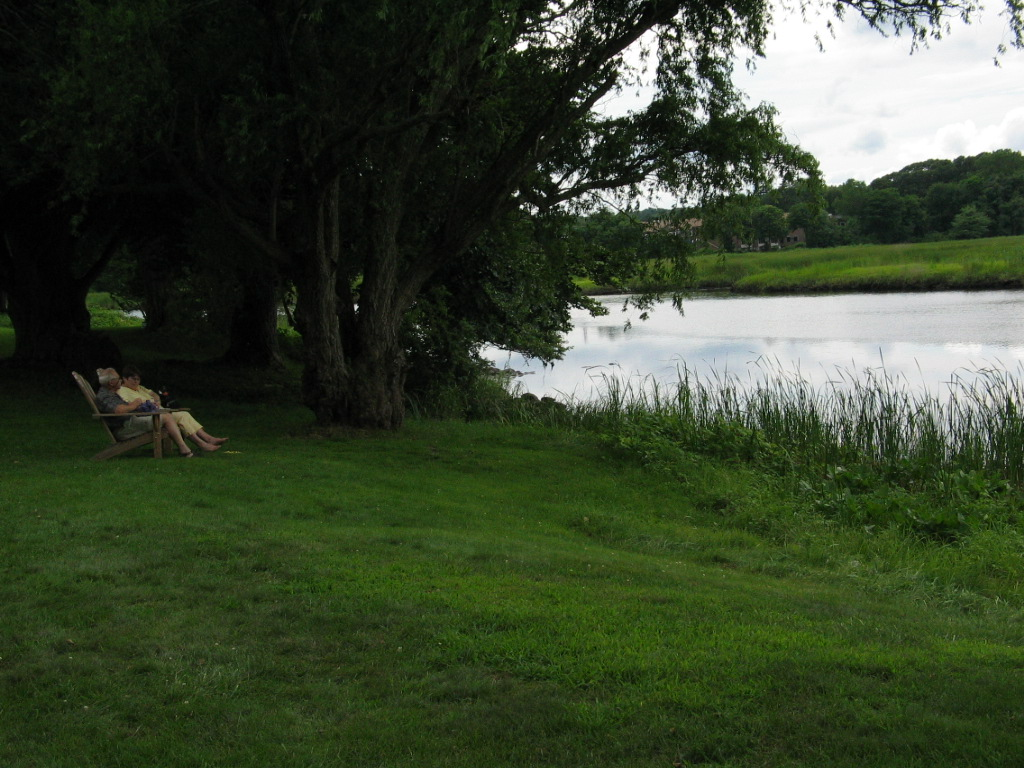 The picturesque Old Lyme, CT